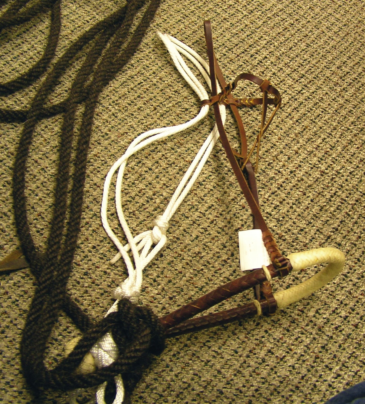 A bosal-style hackamore with horsehair mecate and nylon cord fiador